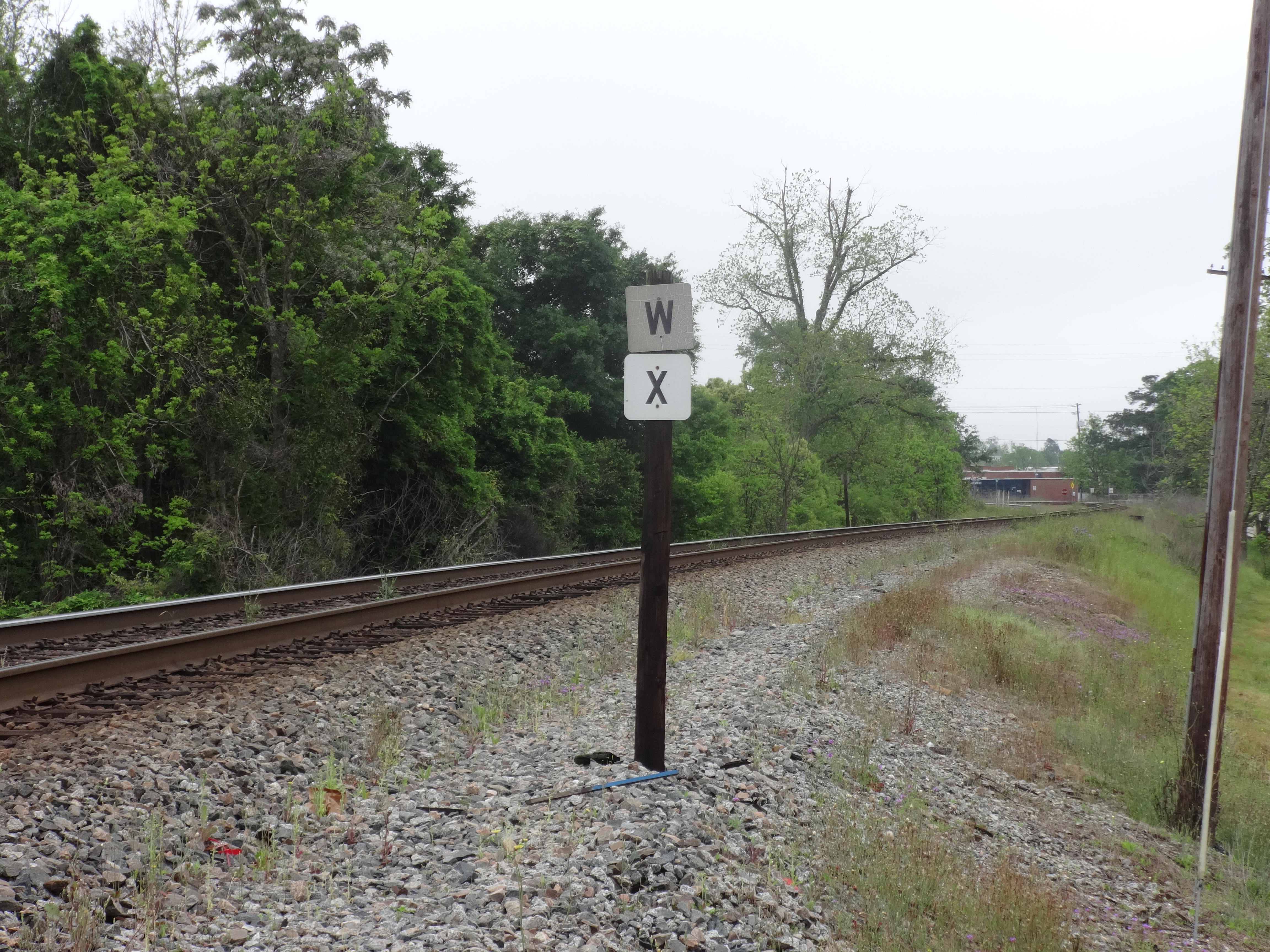 Whistle post with multiple crossings, near Savannah Ave, Valdosta, Lowndes County, Georgia